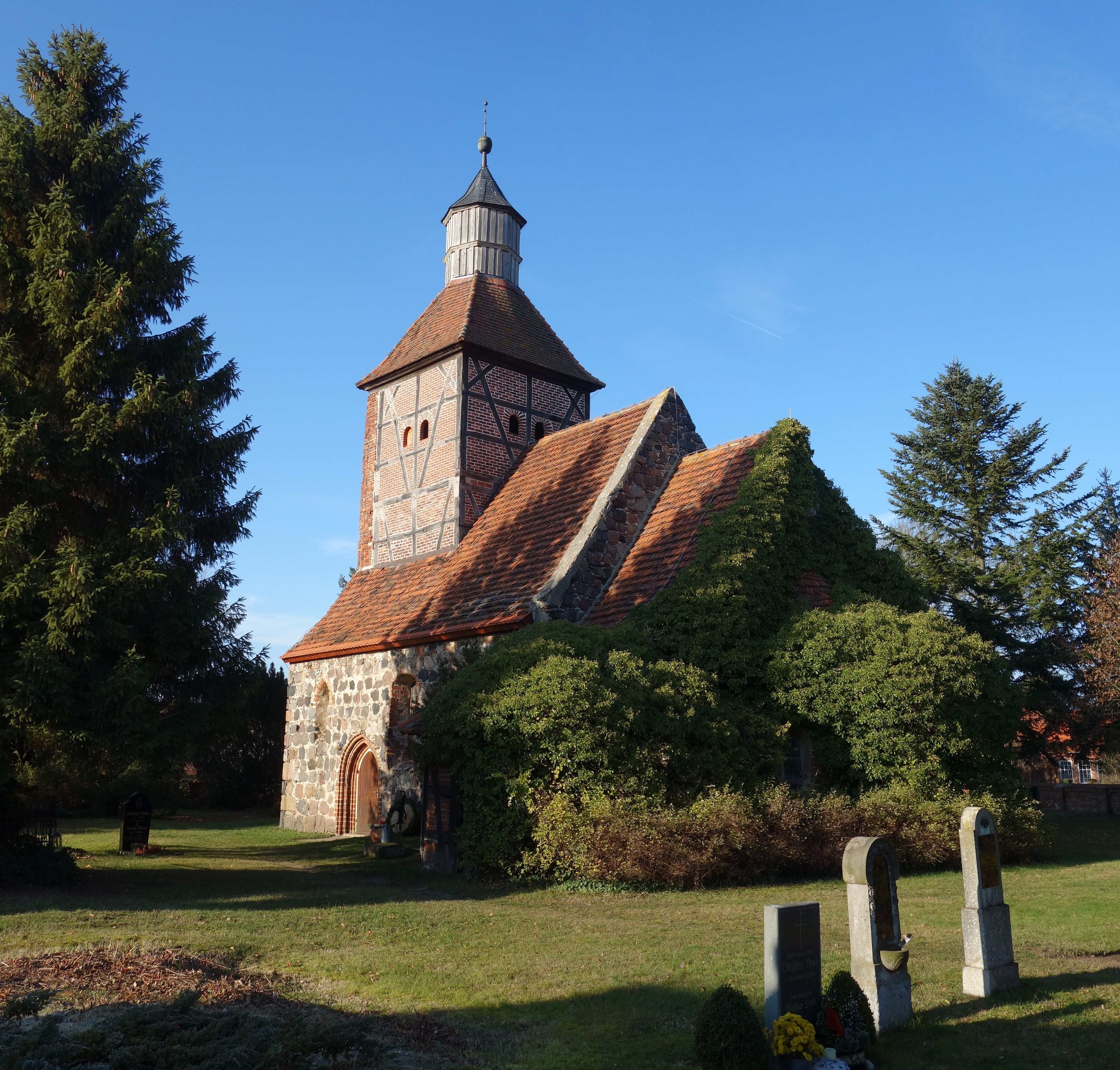 South-eastern view of church in Spaatz, Havelaue municipality, Havelland district, Brandenburg state, Germany